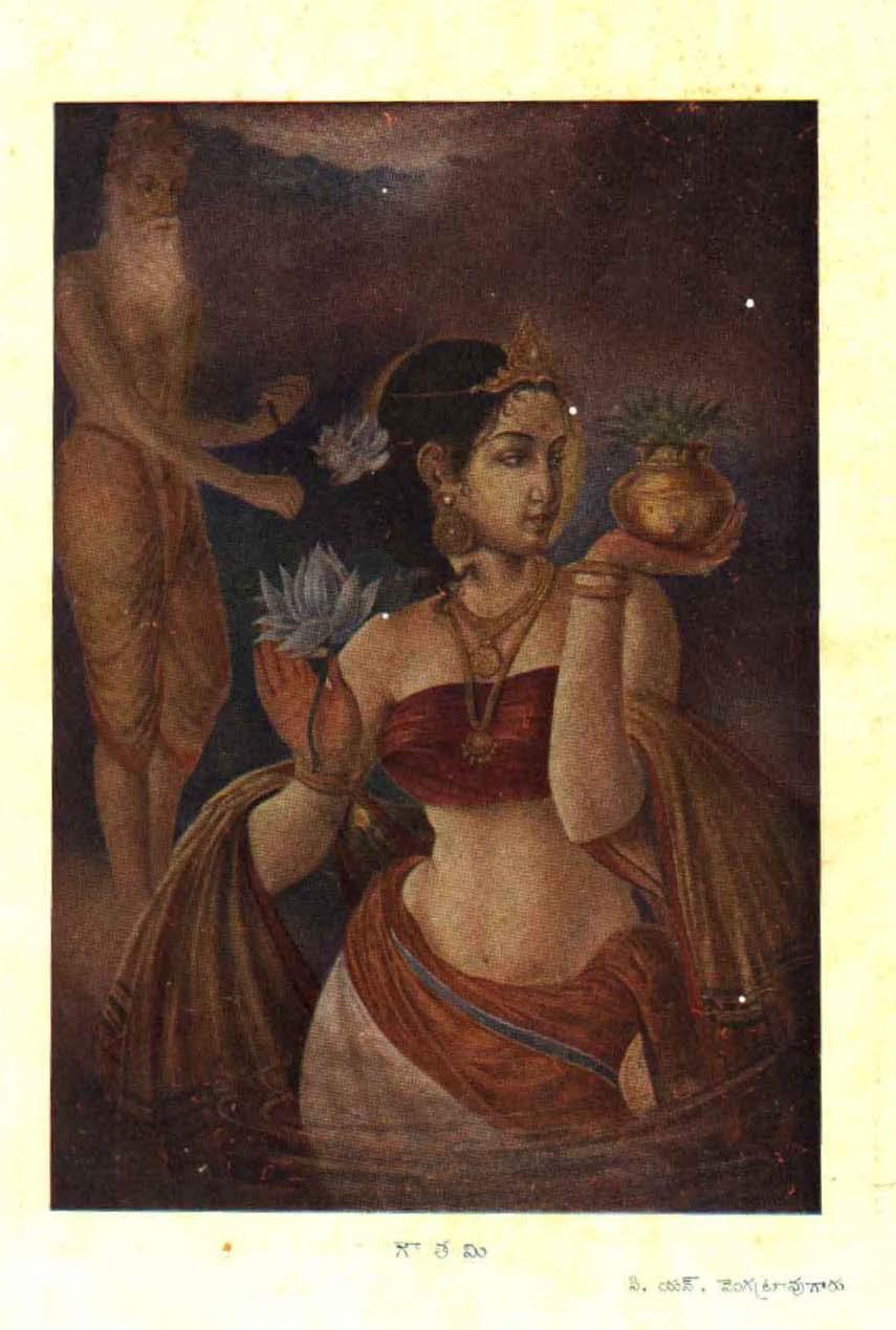 This is the famous painting by C.N. Venkatarao Published in Gruhalakshmi telugu monthly magazine in 1936